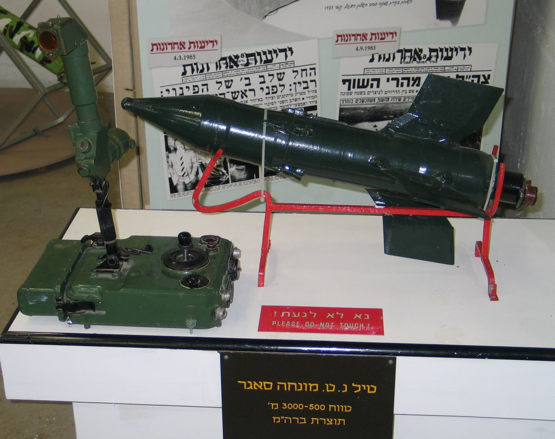 Description: Maljutka / AT-3 Sagger anti-tank missile in Batey ha-Osef Museum, Tel Aviv, Israel. 2005. Source: Photo by me, User:Bukvoed.